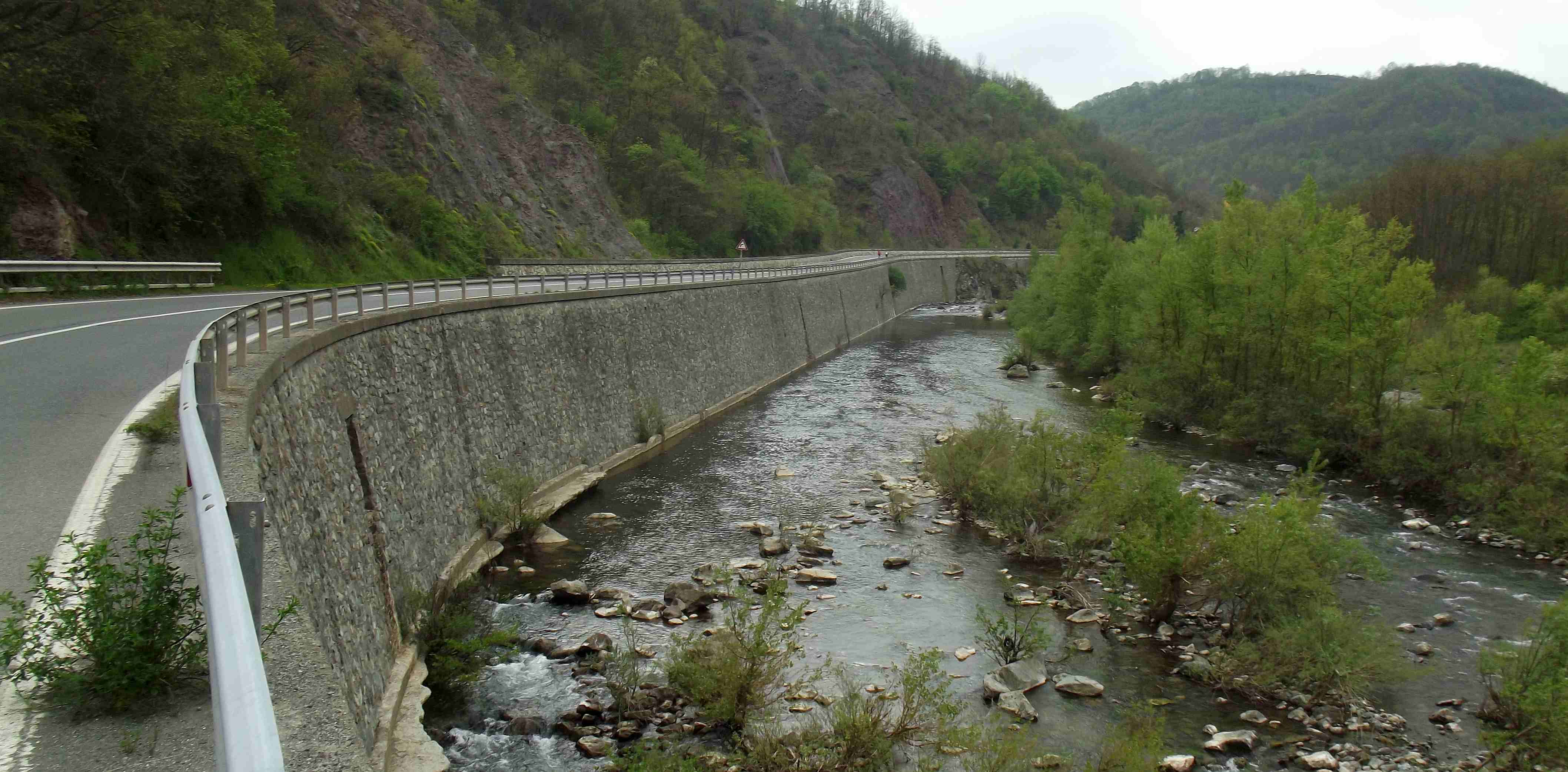 The Erro and the former national road 334 del Sassello